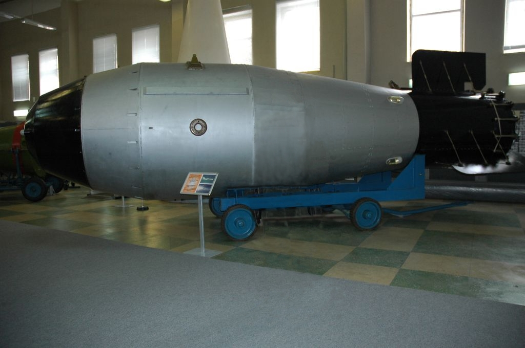 Body of the RDS202 (similar as AN602 "Tsar Bomba") in the Sarov atomic bomb museum. The real bomb was with another front part.